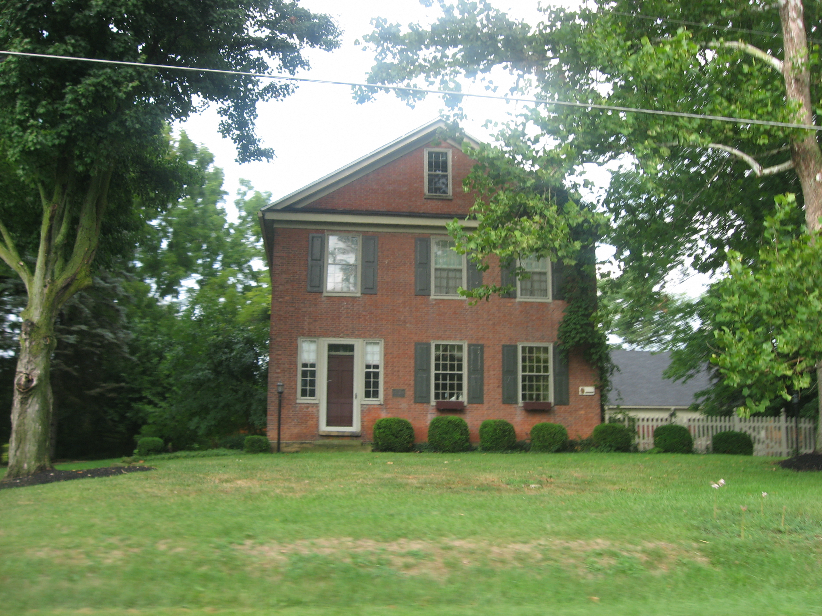 Front of the former Center Inn, located on State Route 37 southeast of Sunbury in Trenton Township, Delaware County, Ohio, United States. Built in 1829, it is listed on the National Register of Historic Places.